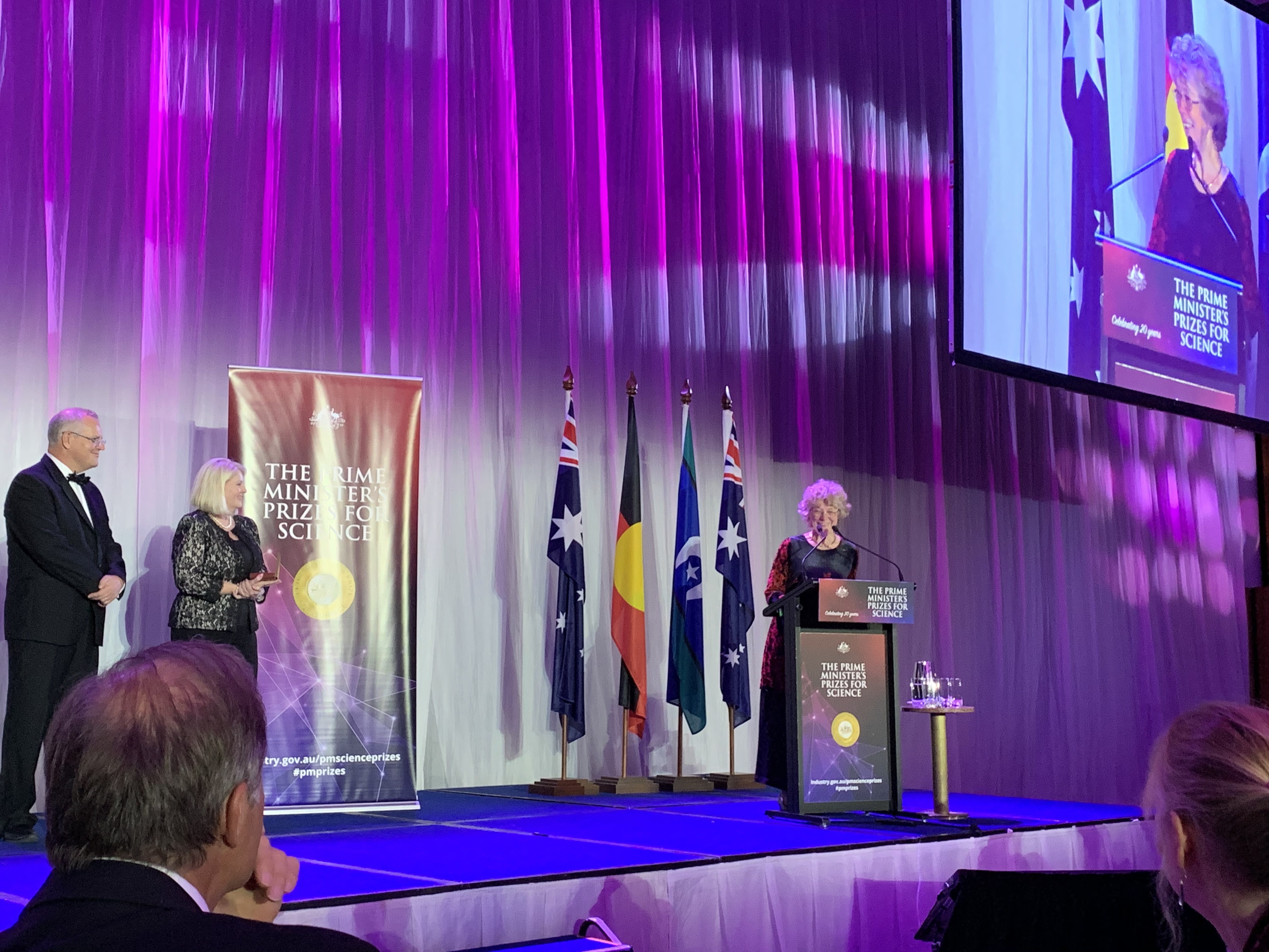 Professor Cheryl Praeger of UWA, winner of the 2019 PM's Prize for Science, on stage with the Prime Minister Honourable Scott Morrison and Minister for Innovation, Science and Research Karen Andrews.